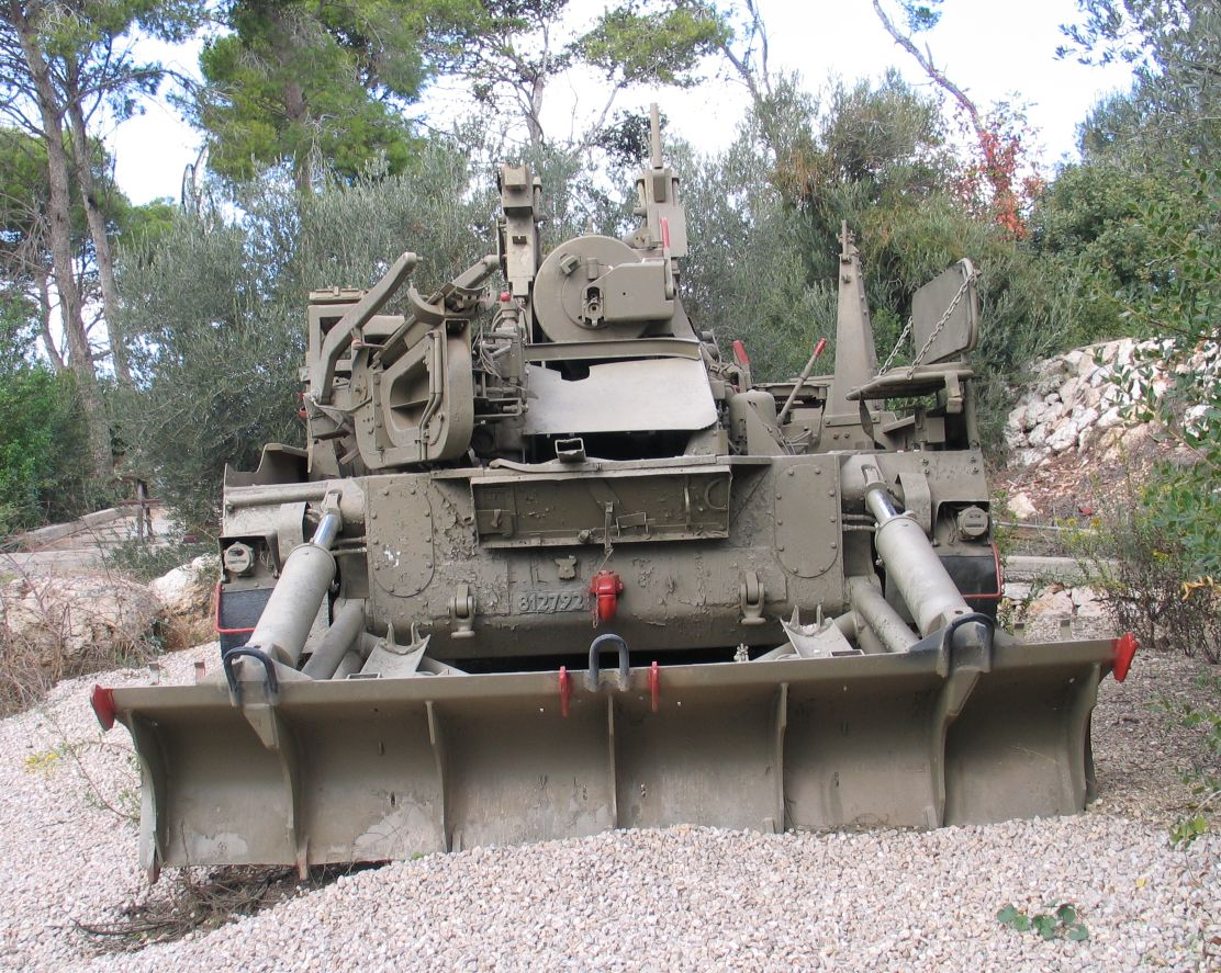 Description: US M107 175 mm self-propelled gun (IDF designation "Romach") in Beyt ha-Totchan, Zichron Yaakov, Israel. 2005. Source: Photo by me, User:Bukvoed.